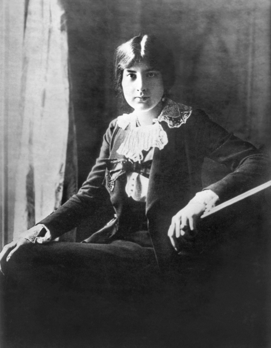 A portrait of Lili Boulanger.